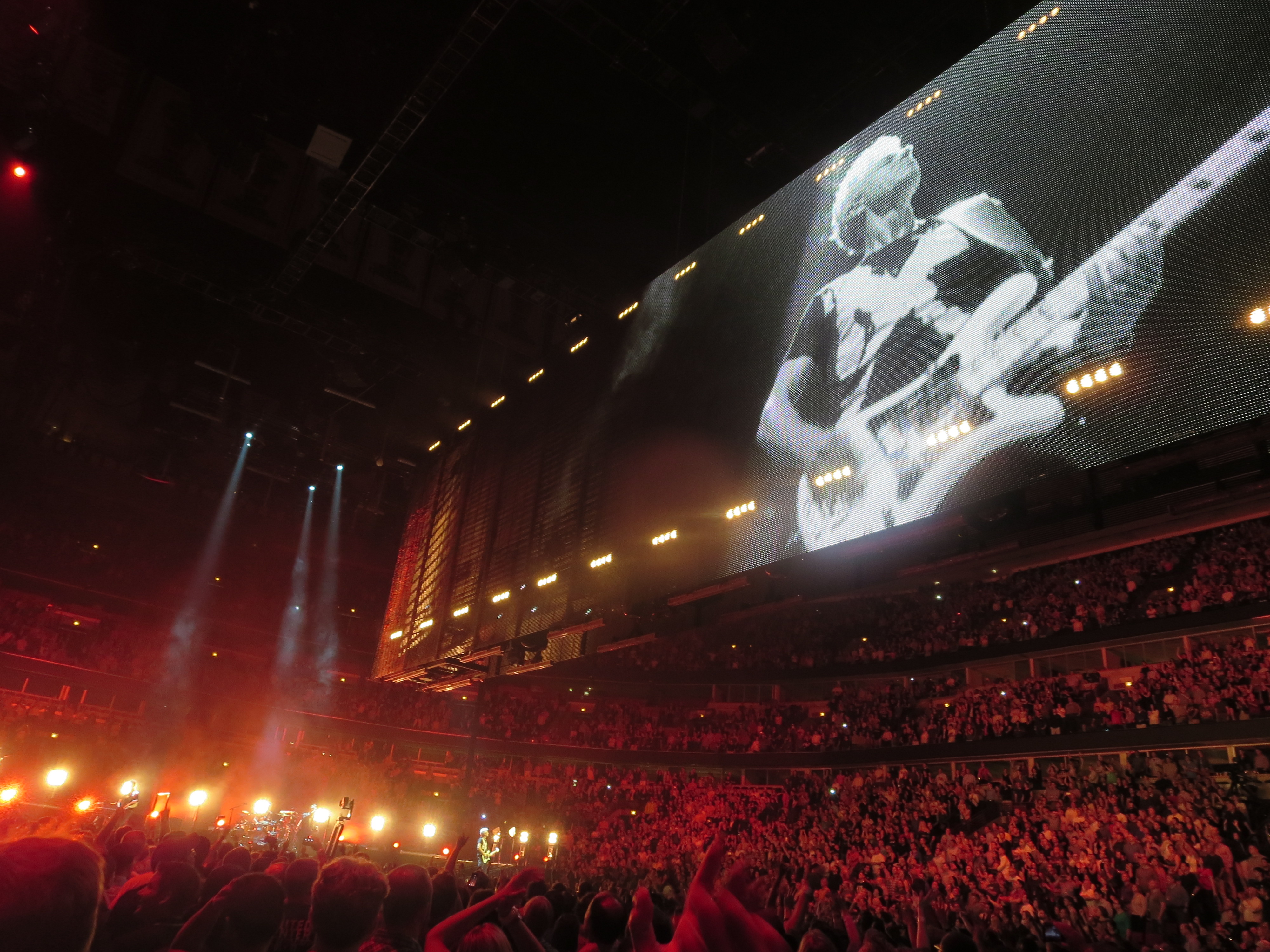 The video cage used on U2's Innocence + Experience Tour, pictured at the United Center in Chicago, IL on June 29, 2015